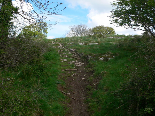 Footpath up Bedd y Cawr